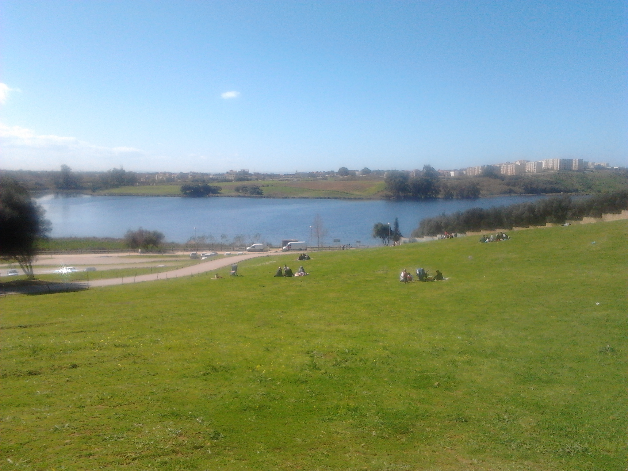 lac de reghaia alger